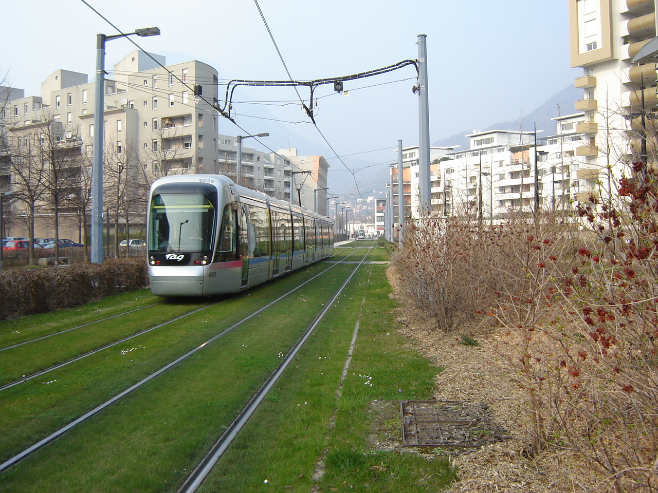 Tramway in the Europole quarter, Grenoble